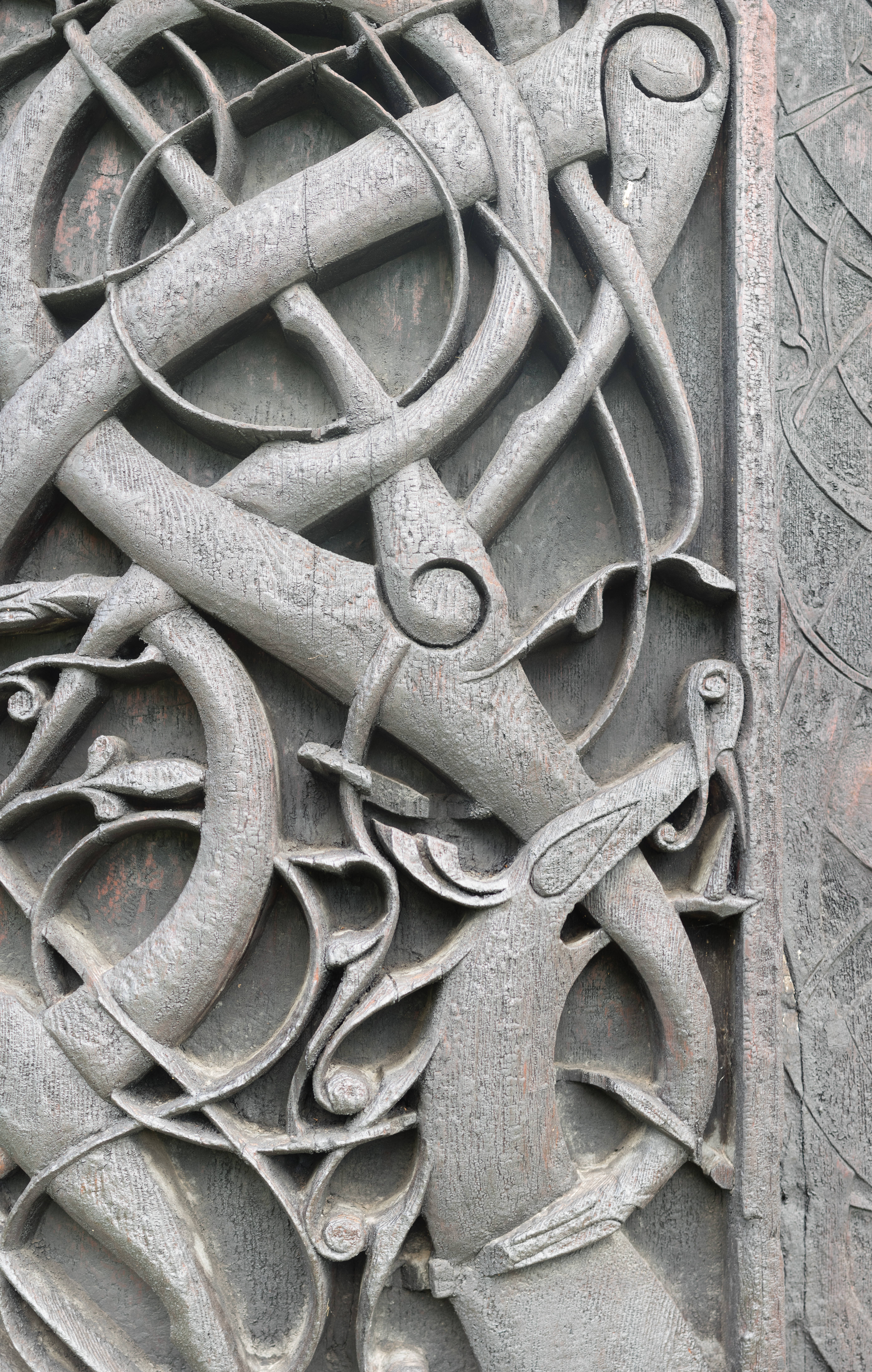 Carvings in north wall portal, Urnes Stave Church.